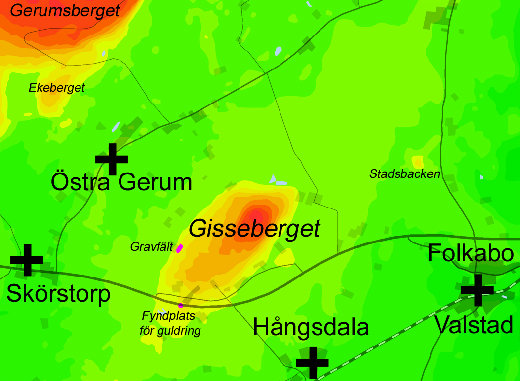 Map over the table mountain Gisseberget in Tidaholm municipality, the Falbygden area, former Skaraborg county, Västergötland, Västra Götaland county, Sweden. Scale 1:20,000. Topography: Altitude is shown with different colours from green over yellow to red. Equidistance 10 m.Water: Ponds are blue. Churches: The churches of Valstad, Hångsdala, Östra Gerum, and Skörstorp parishes are marked with black crosses. Roads, populated areas, villages, and farms are different shades of grey. Archaeology: An Iron Age grave-field and the site, where a golden ring from the Roman Iron Age is found, are marked magenta.